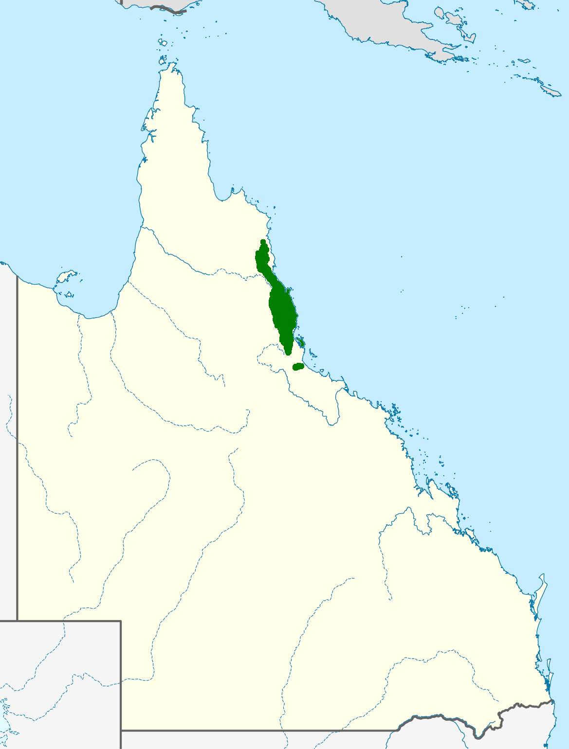 Map template derived from File:Australia_Queensland_location_map_blank.svg. Information adapted from Taylor, Anne; Hopper, Stephen (1988) The Banksia Atlas (Australian Flora and Fauna Series Number 8), Canberra: Australian Government Publishing Service, p. 127 ISBN: 0-644-07124-9. (incorporates official herbarium data from that page).